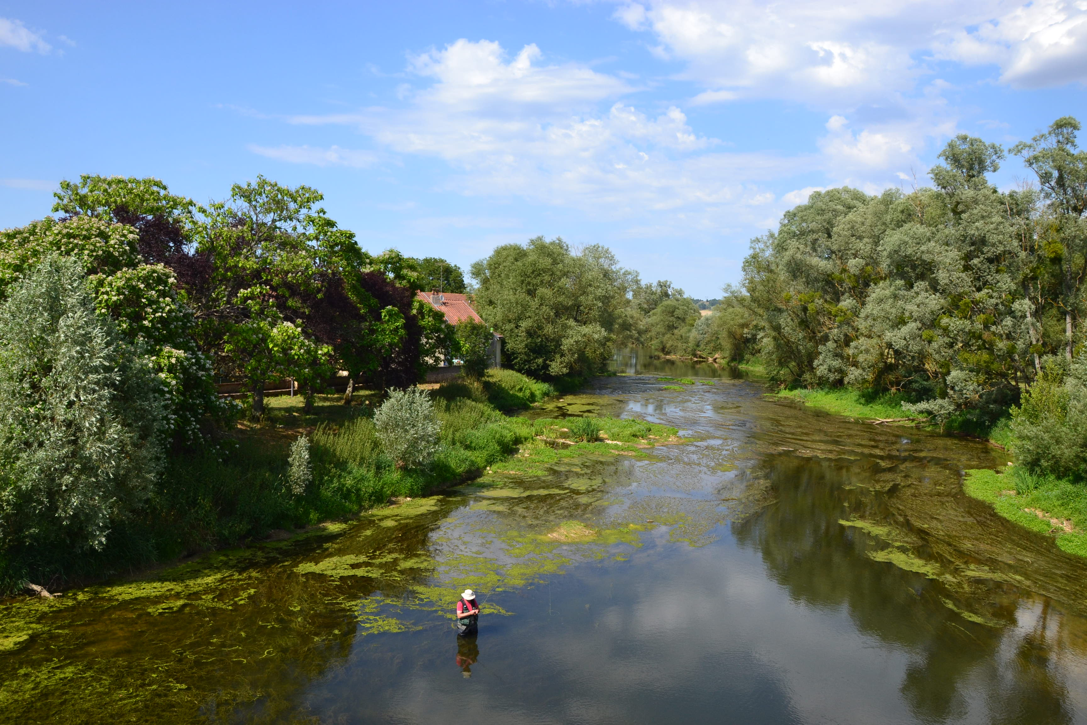 The Meuse at Domrémy-la-Pucelle, Vosges, France